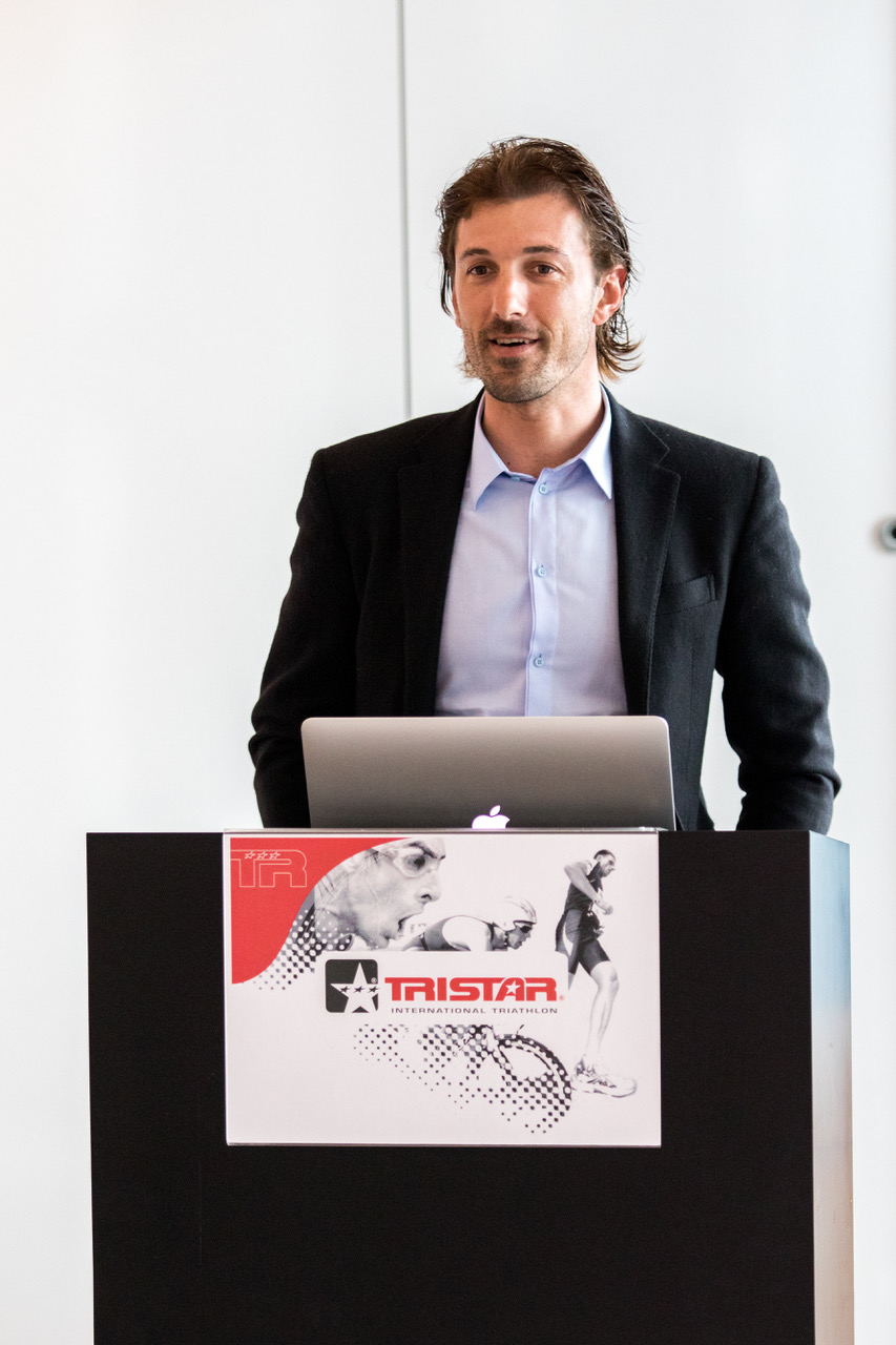 Fabian Cancellara bei der Pressekonferenz zum Neustart von TrisStar in Rorschach